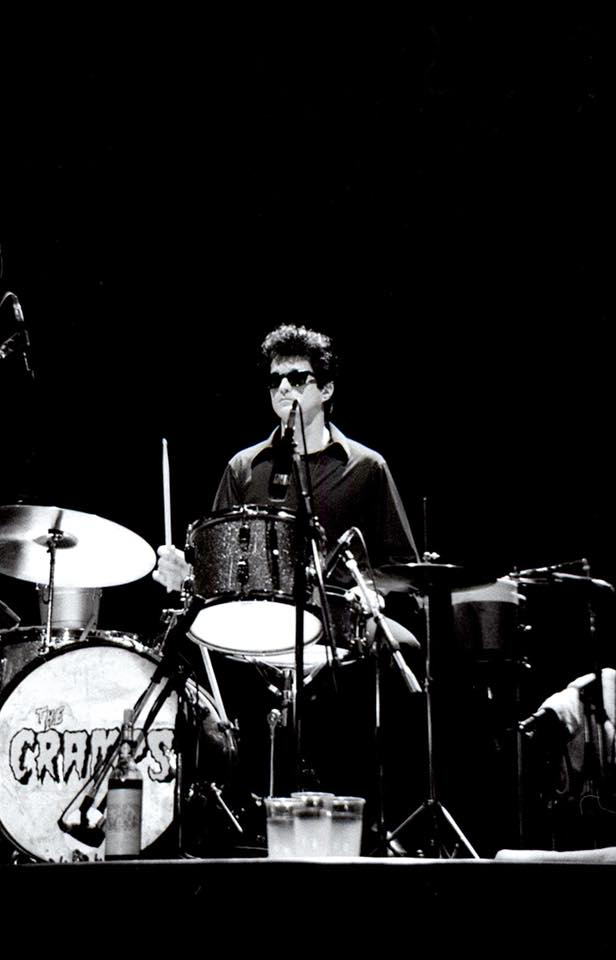 1990 MZA Ariake, Tokyo R.I.P.